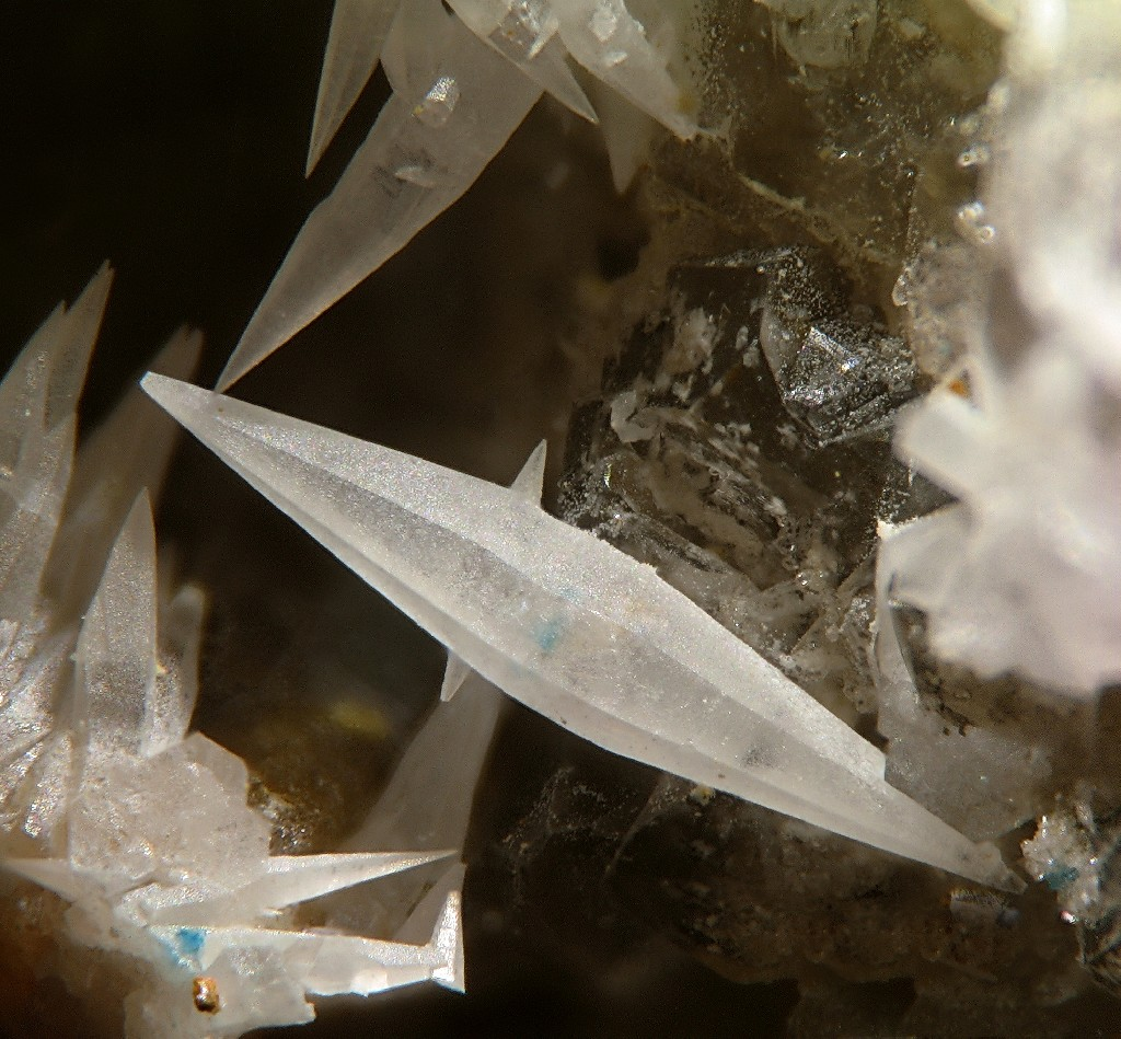 Penfieldite Locality: Margarita Mine, Caracoles, Sierra Gorda District, Tocopilla Province, Antofagasta Region, Chile Picture width 2.5 mm. Collection and photograph Christian Rewitzer